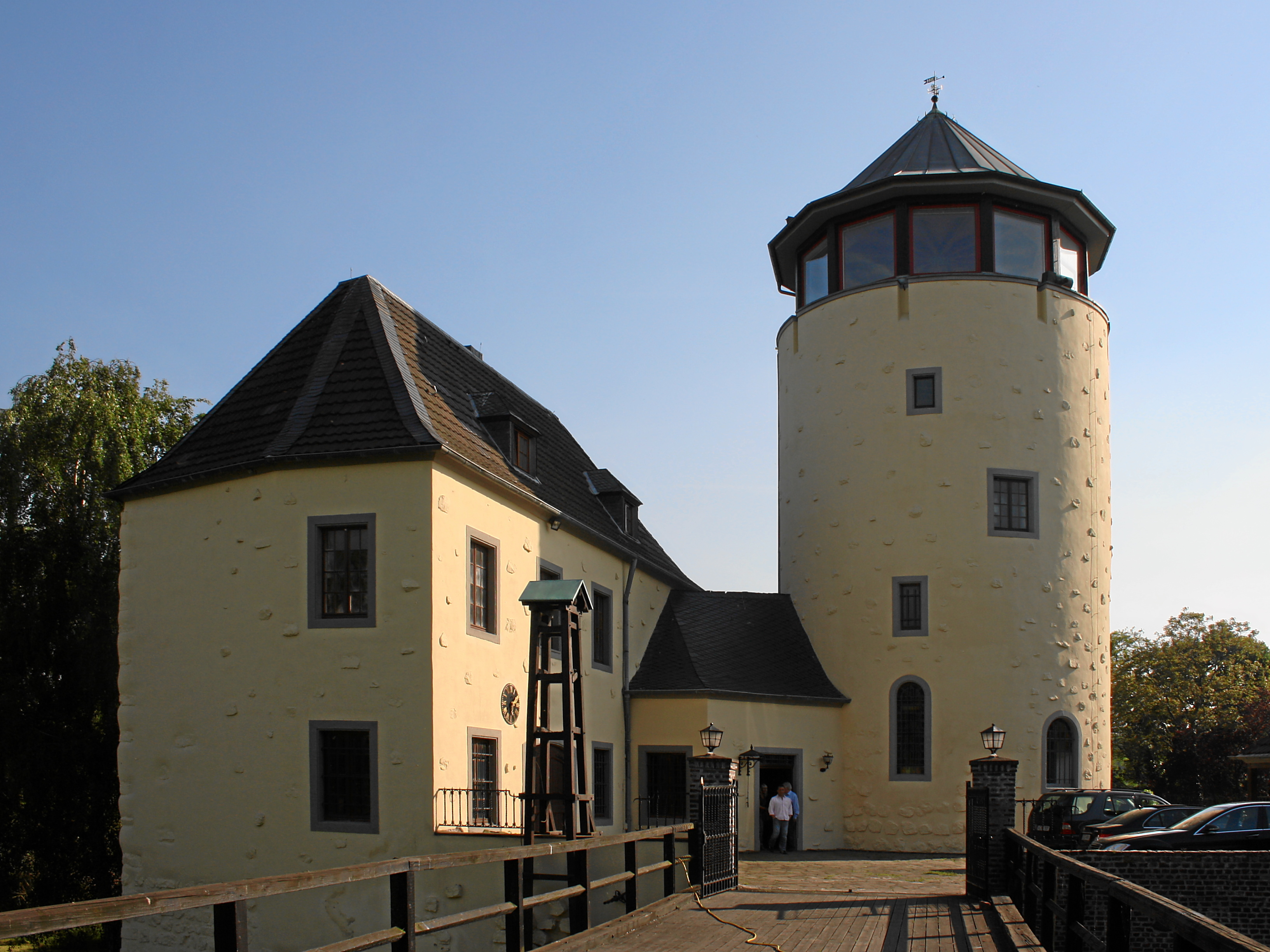 Niederkassel-Lülsdorf, Germany. Castle, exterior view from North.